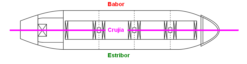 Midship line (spanish)